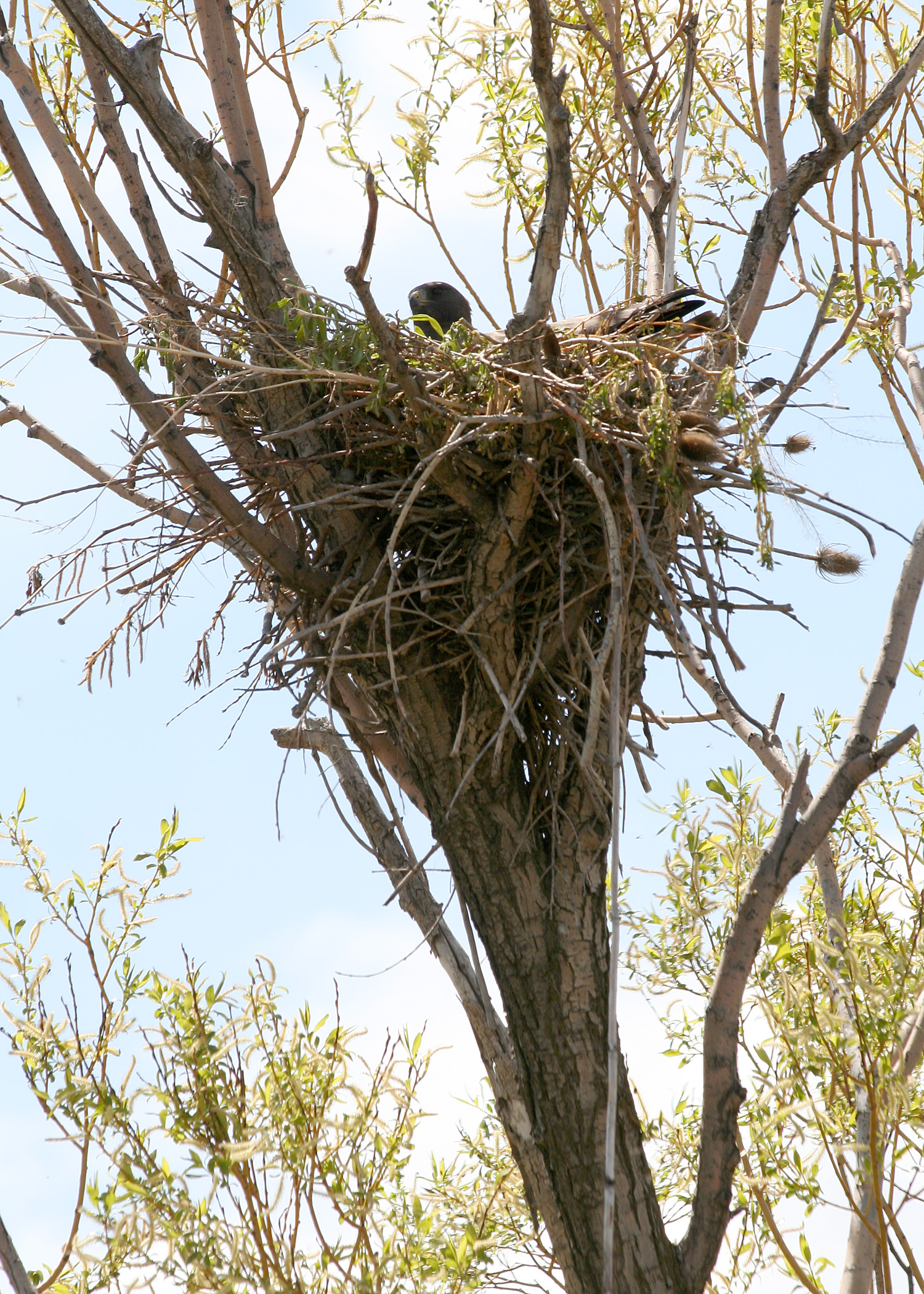 Photo by Kathy Munsel, Oregon Department of Fish and Wildlife- Red-tailed Hawk (Buteo jamaicensis) One of the most familiar sights along the roads of Oregon is a Red-tailed Hawk soaring high on the sky over a field, or perched on a utility pole, waiting patiently for prey. Red-tailed Hawks are large-bodied raptors with relatively broad wings. The back is mottled brown, and the tail of mature birds is orangish red with a thin, dark subterminal band. Perched birds can be identified from behind even when the tail is concealed by the white mottling on the scapulars forming a faint 'V'. Most individuals can be assigned to one of two color morphs, light or dark. Both are similar from the back, but underneath the light-morph birds are largely white of off-white with a belly band of varying extent and darkness. It is found throughout the state in every habitat and at every elevation, though they are scarce in more densely forested areas. Photo above: A redtail hawk nests on the Ladd Marsh Wildlife Area, May 2009